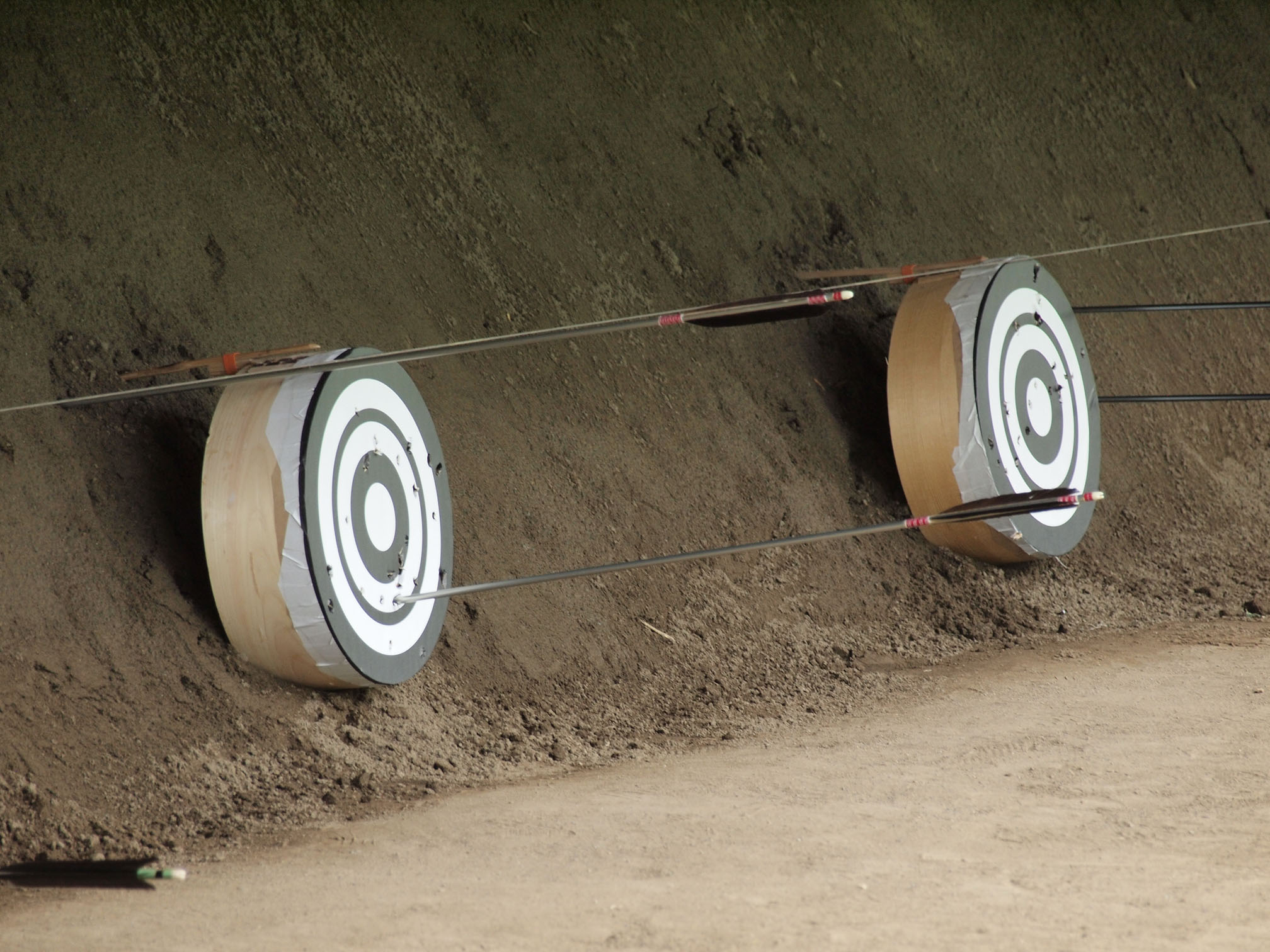 Target of Kyudo